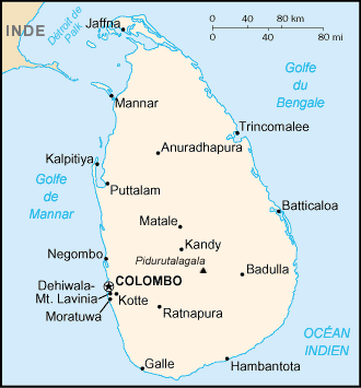 Map in French of Sri Lanka